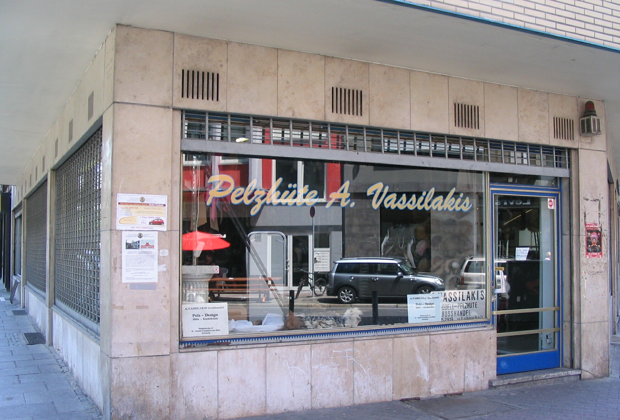 Frankfurt/Main, Niddastr./Karlstr. (fur center)